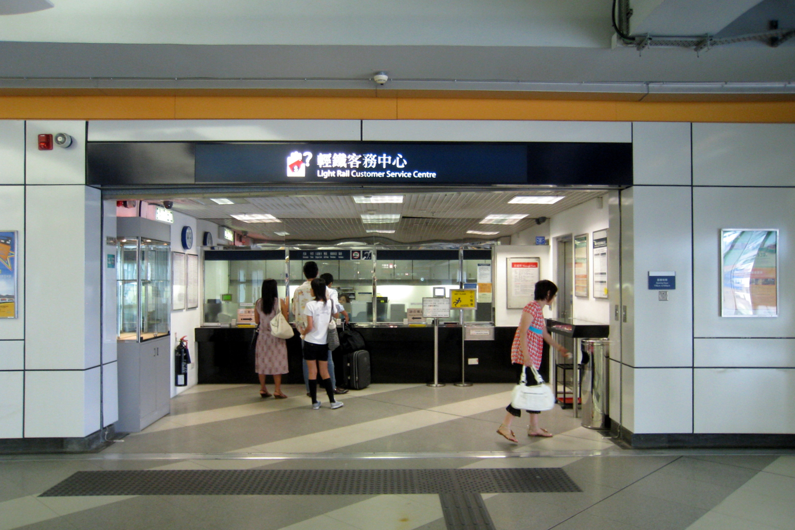 Tin Shui Wai Station Customer Service Centre